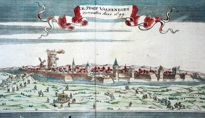 Valkenburg, Limburg. Conquest of Valkenburg by Dutch troops in 1644. Hand-coloured print by Isaac Commelin, 1656. The representation of Valkenburg and its castle is unconvincing.